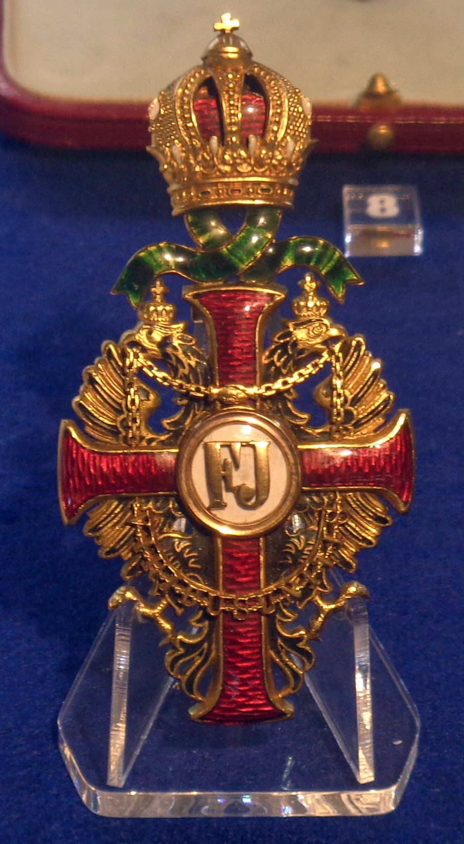 Imperial Order of Franz Joseph, Officer's badge with war decoration, 1914-1918. Austro-Hungary. The exhibition of the Tallinn Museum of Orders of Knighthood, Estonia.